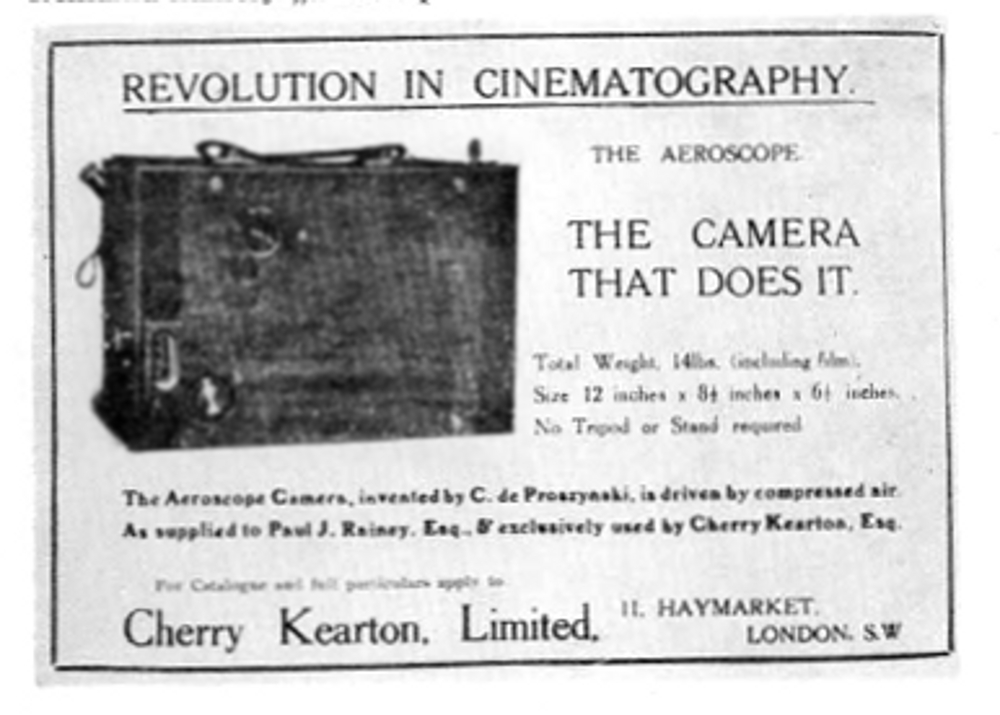 Aeroskop revolution in cinematography 1913.